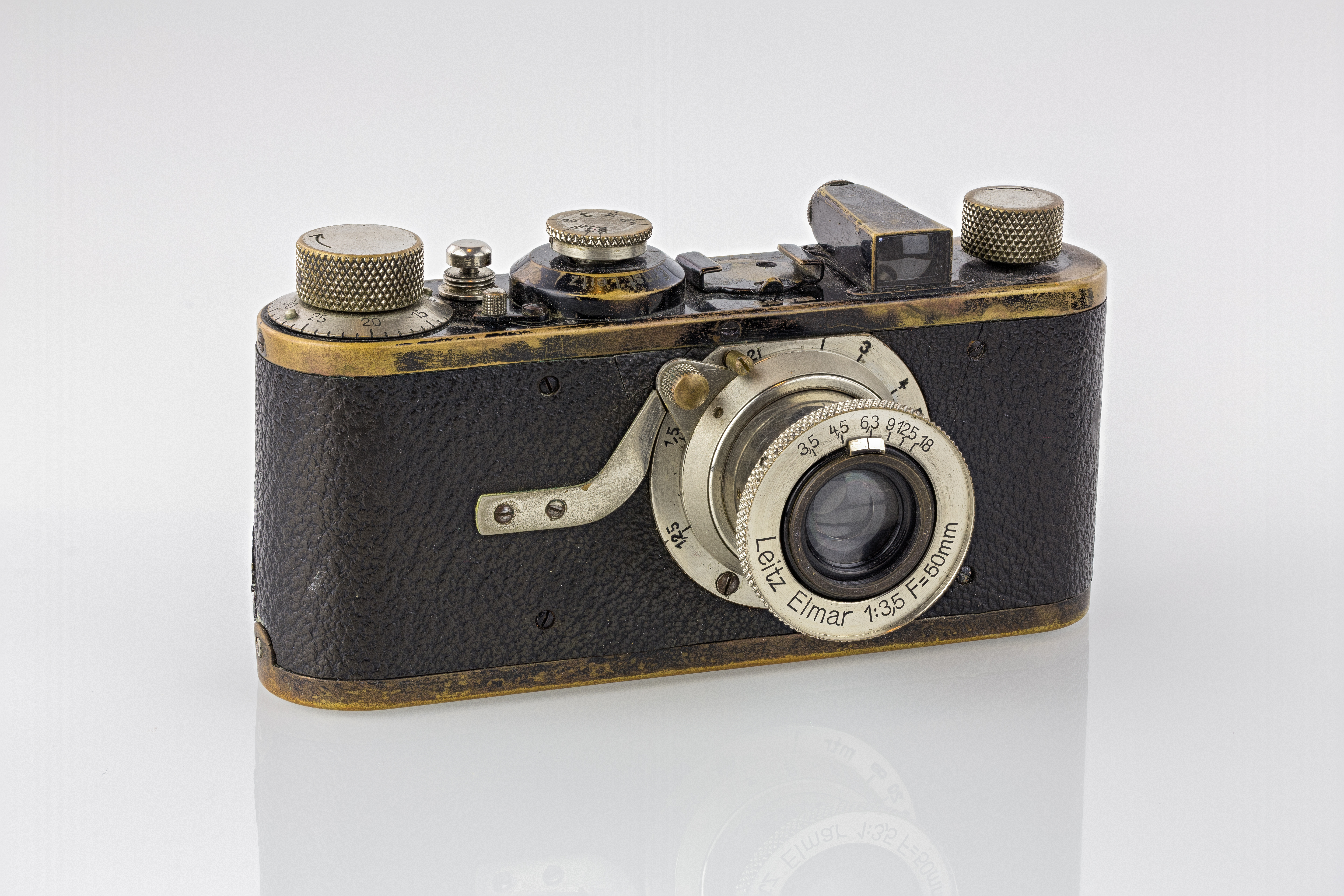 Leica Mod. Ia (1927), production number 5193, production time 1925-1936, Leitz Elmar F=50mm, 1:3.5